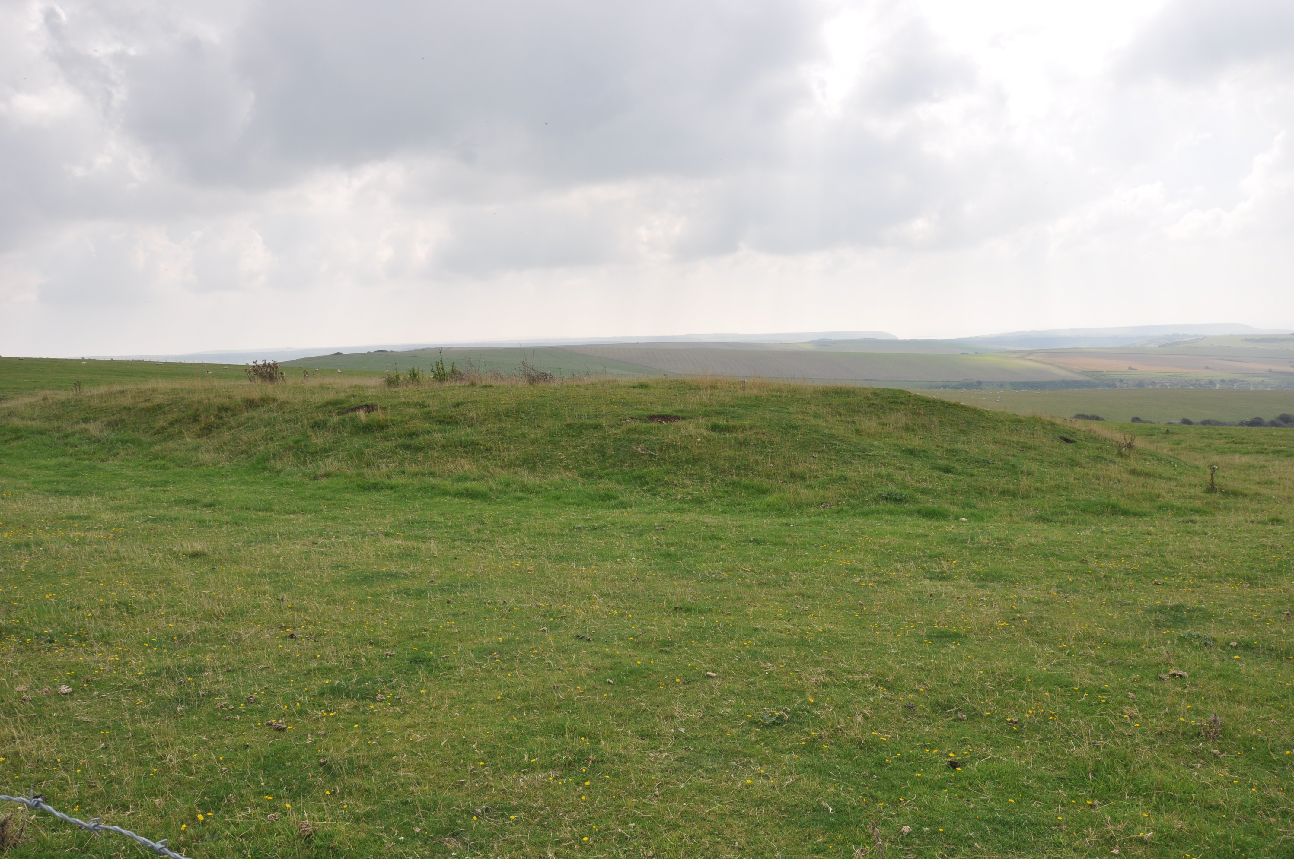 Oval barrow and adjacent bowl barrow, 220m west of Firle Beacon